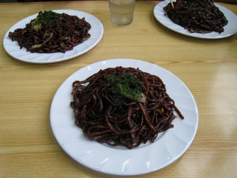 Ohta-city, Iwasakiya's Yakisoba